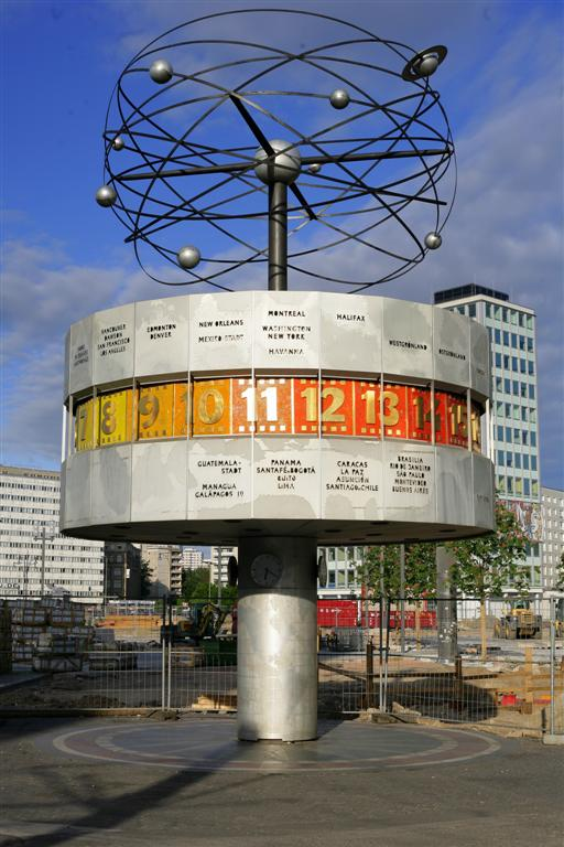 Urania-Weltzeituhr, Berlin